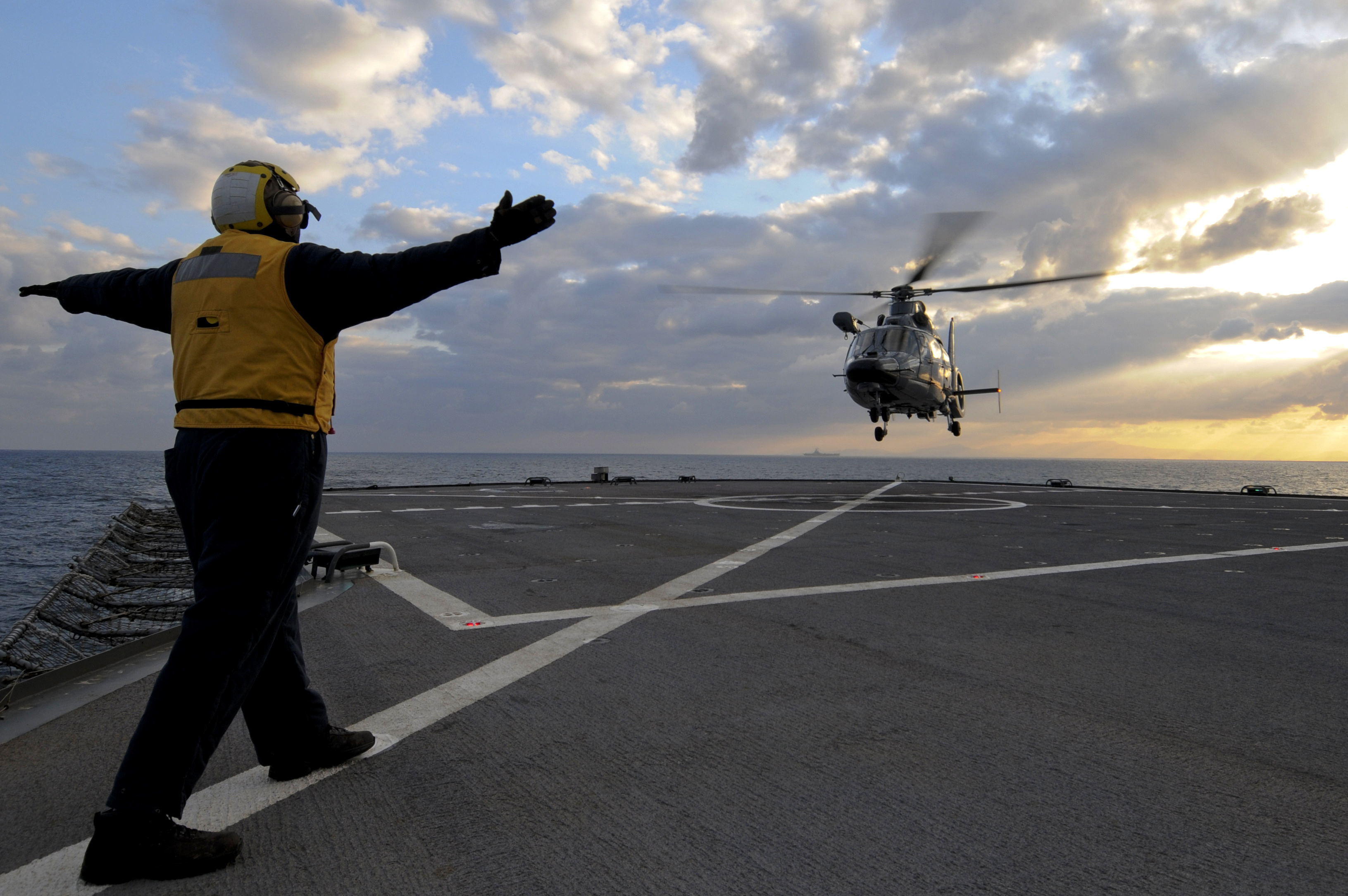 MEDITERRANEAN SEA (March 21, 2011) A French navy AS365 F Dauphin rescue helicopter from French aircraft carrier Charles de Gaulle (R91) test lands aboard the amphibious command ship USS Mount Whitney (LCC/JCC 20). Charles de Gaulle is operating in the Mediterranean Sea supporting the coalition led operations in response to the crisis in Libya. (U.S. Navy photo by Mass Communication Specialist 1st Class Gary Keen/Released)